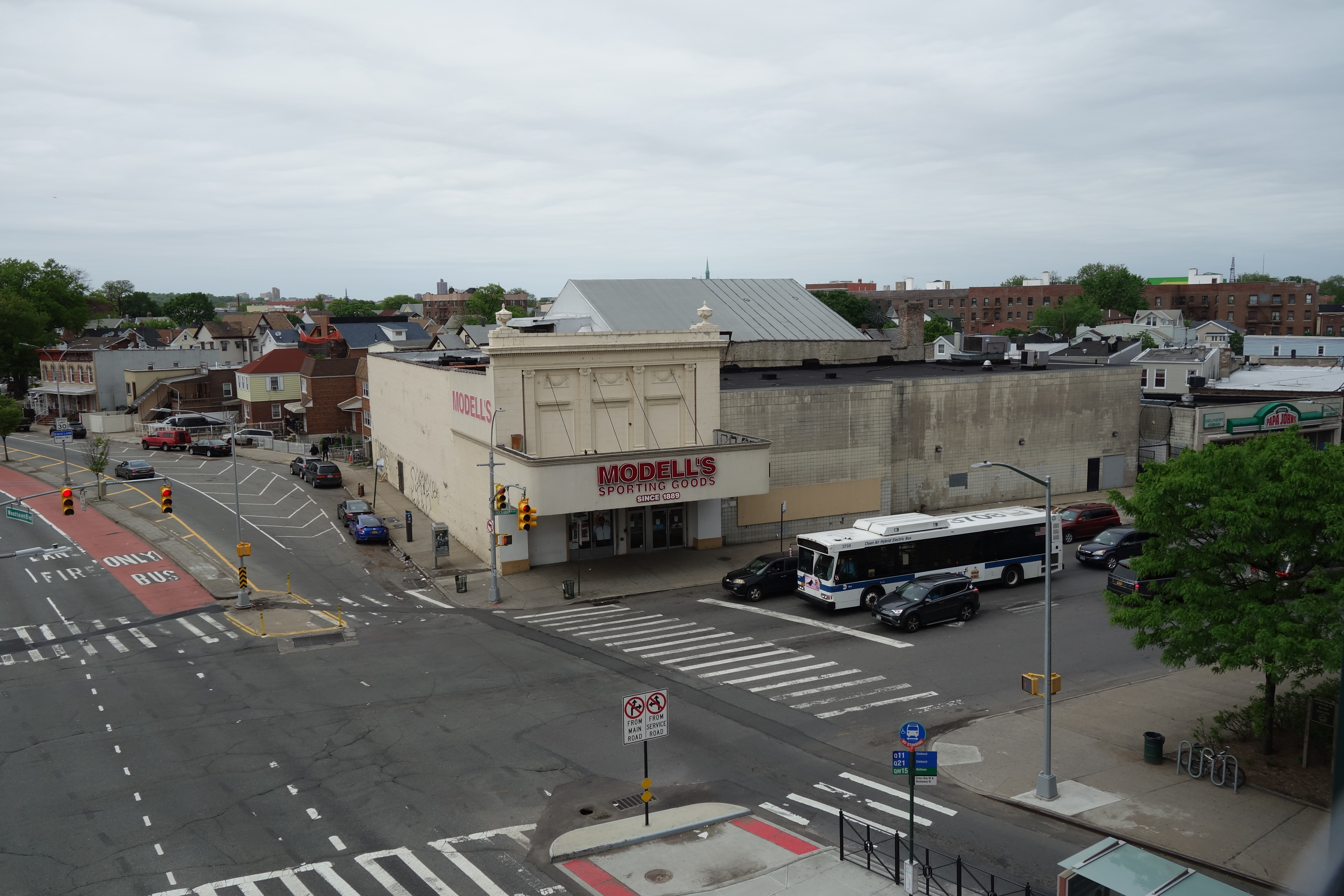 Looking north at the former Cross Bay Theater, now a Modell's store, at Woodhaven Boulevard and Rockaway Boulevard in Woodhaven / Ozone Park, Queens. Looking from the Brooklyn-bound platform of the Rockaway Boulevard subway station of the IND Fulton Street Line.